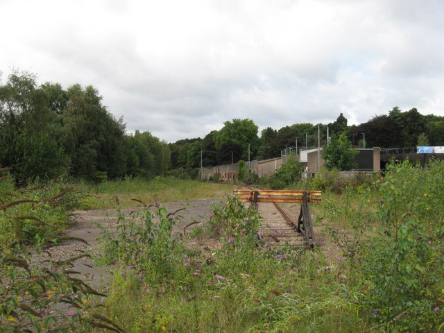 Site of Courtybella Junction, Newport Now the limit of national rail sidings.